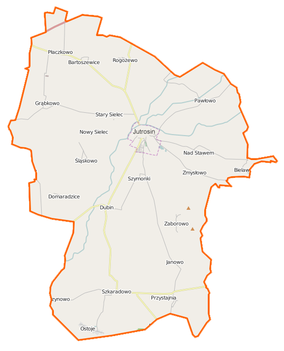 Map of Gmina Jutrosin, Poland This map of Jutrosin (gmina) was created from OpenStreetMap project data, collected by the community. This map may be incomplete, and may contain errors. Don't rely solely on it for navigation. Border coordinates51.708117.0728←↕→17.264751.5609